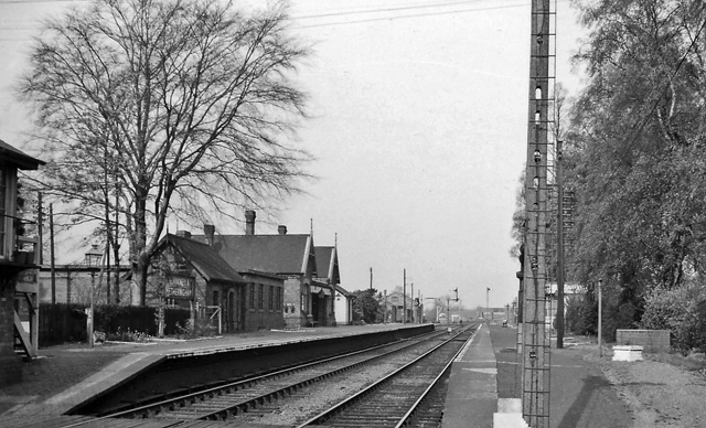 Blankney & Metheringham Station. View NW, towards Lincoln; ex-GN&GE Joint March - Doncaster secondary main line. Station closed to passengers 11/9/61, to goods 15/6/64, but reopened for passengers as 'Metheringham' 6/10/75. This main line, formerly a major artery for freight traffic, now carries only local passenger trains and little freight, but is a potentially valuable alternative to the East Coast Main Line.